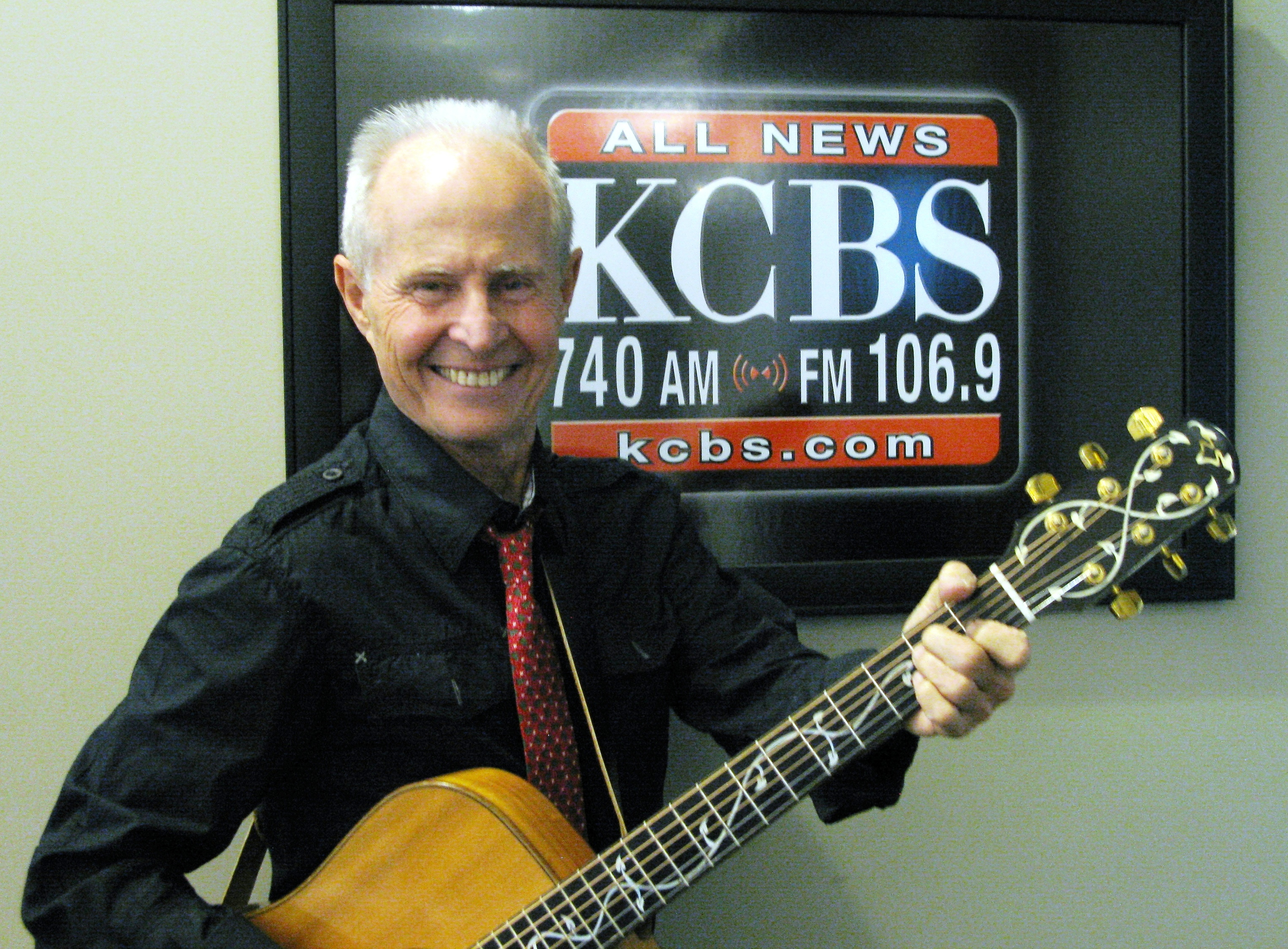 Dr. Elmo (Grandma Got Run Over by a Reindeer) at KCBS radio in San Francisco 11-23-2010